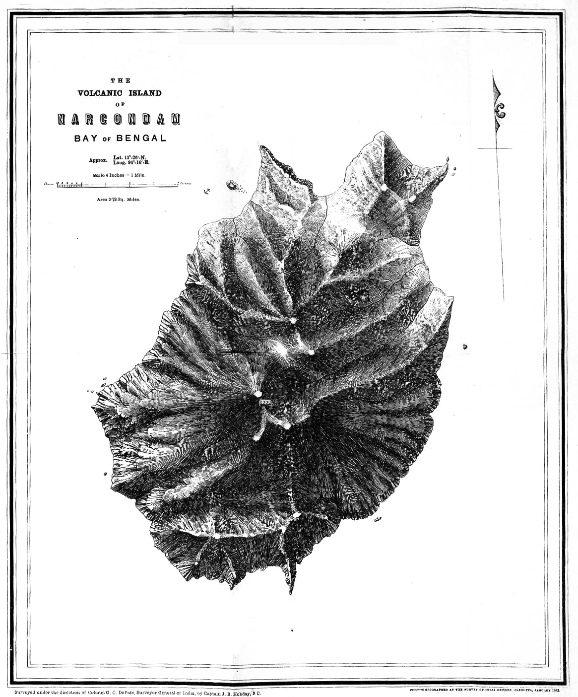 Narcondam Island in 1885